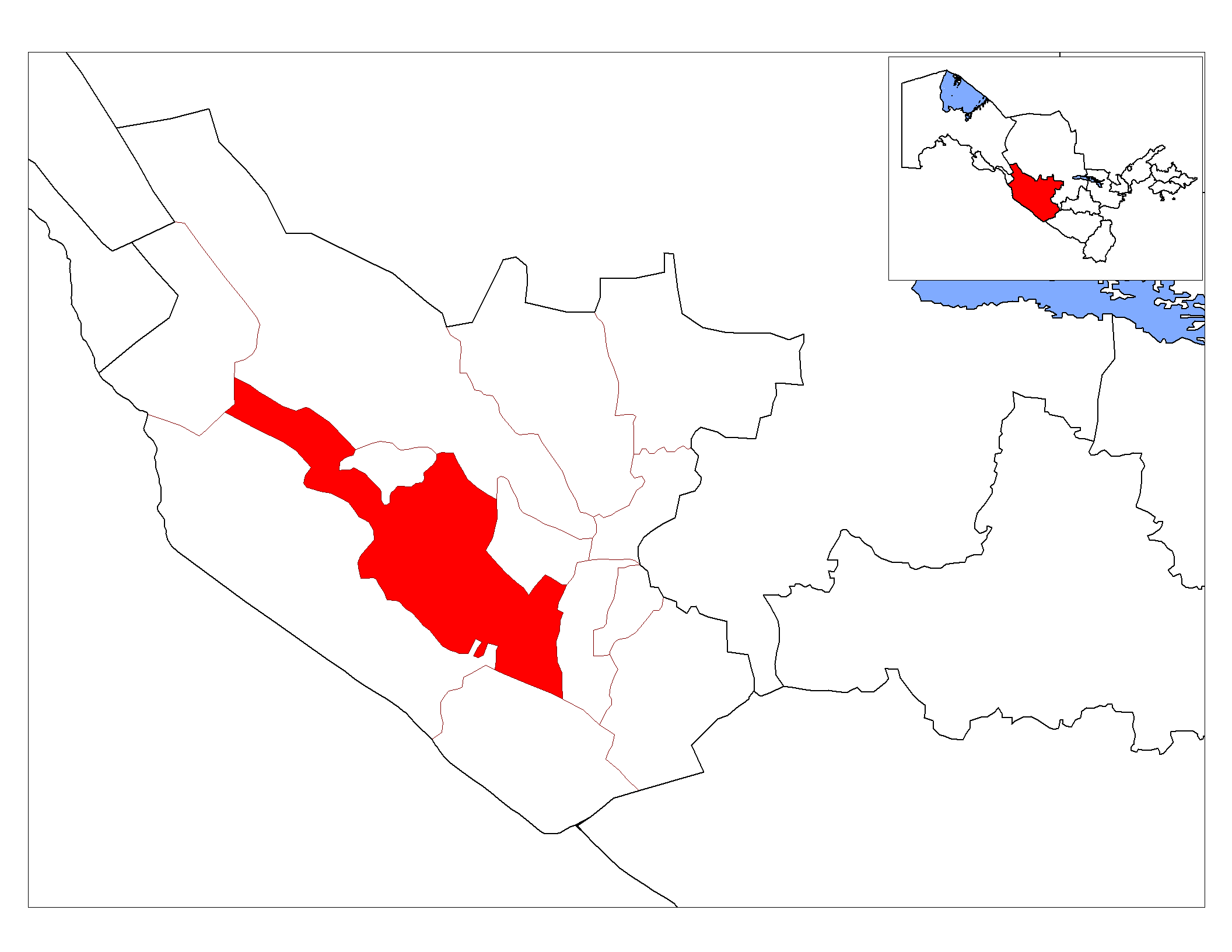 Location map of Jondor District in Buxoro Province, Uzbekistan